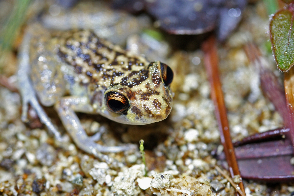 Jumped across our path during a walk through pine forest above Playa Maguana, Baracoa area.